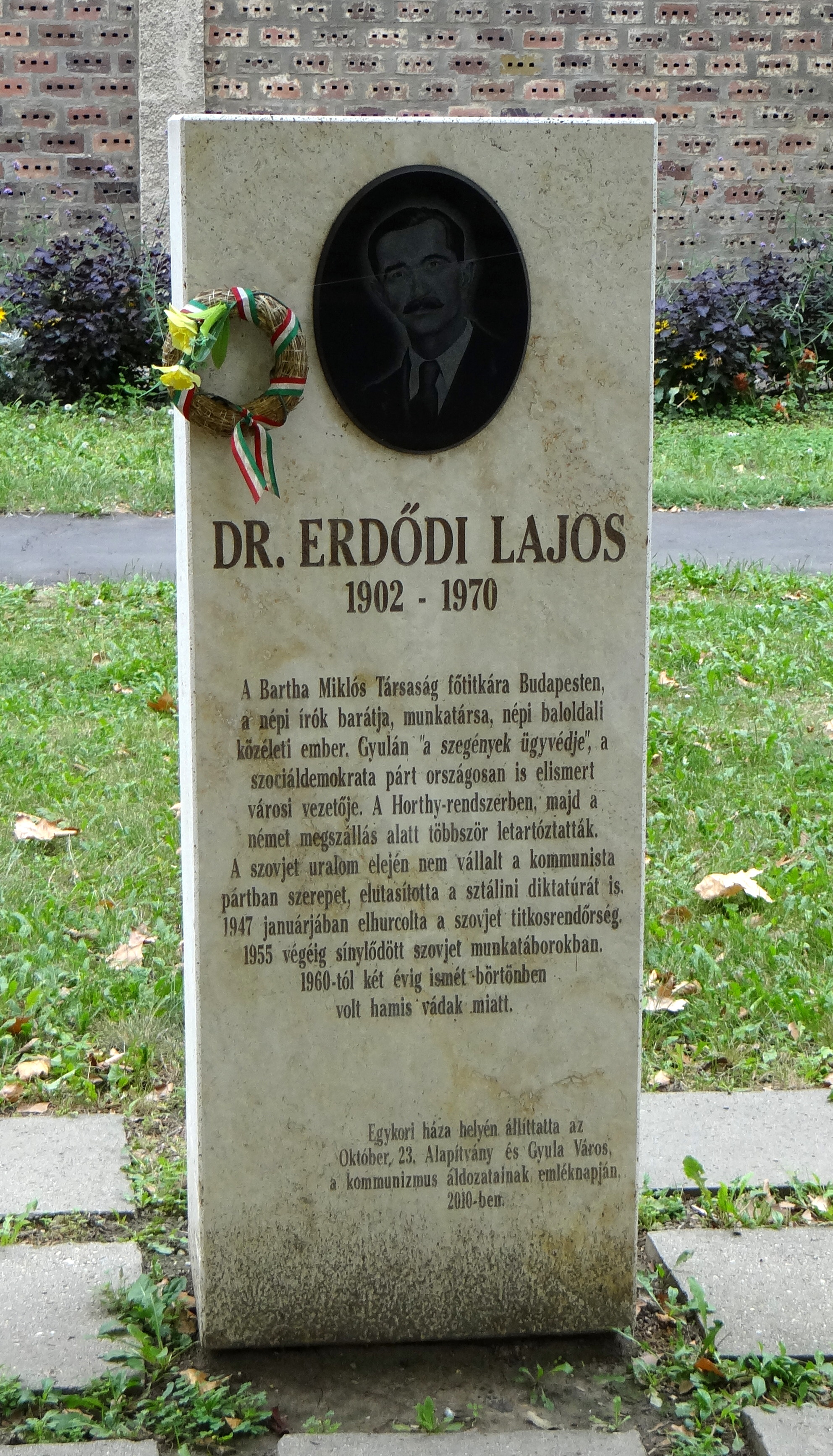 Lajos Erdődy (1902–1970) relief, 31-33 Béke Avenue, Gyula, Hungary